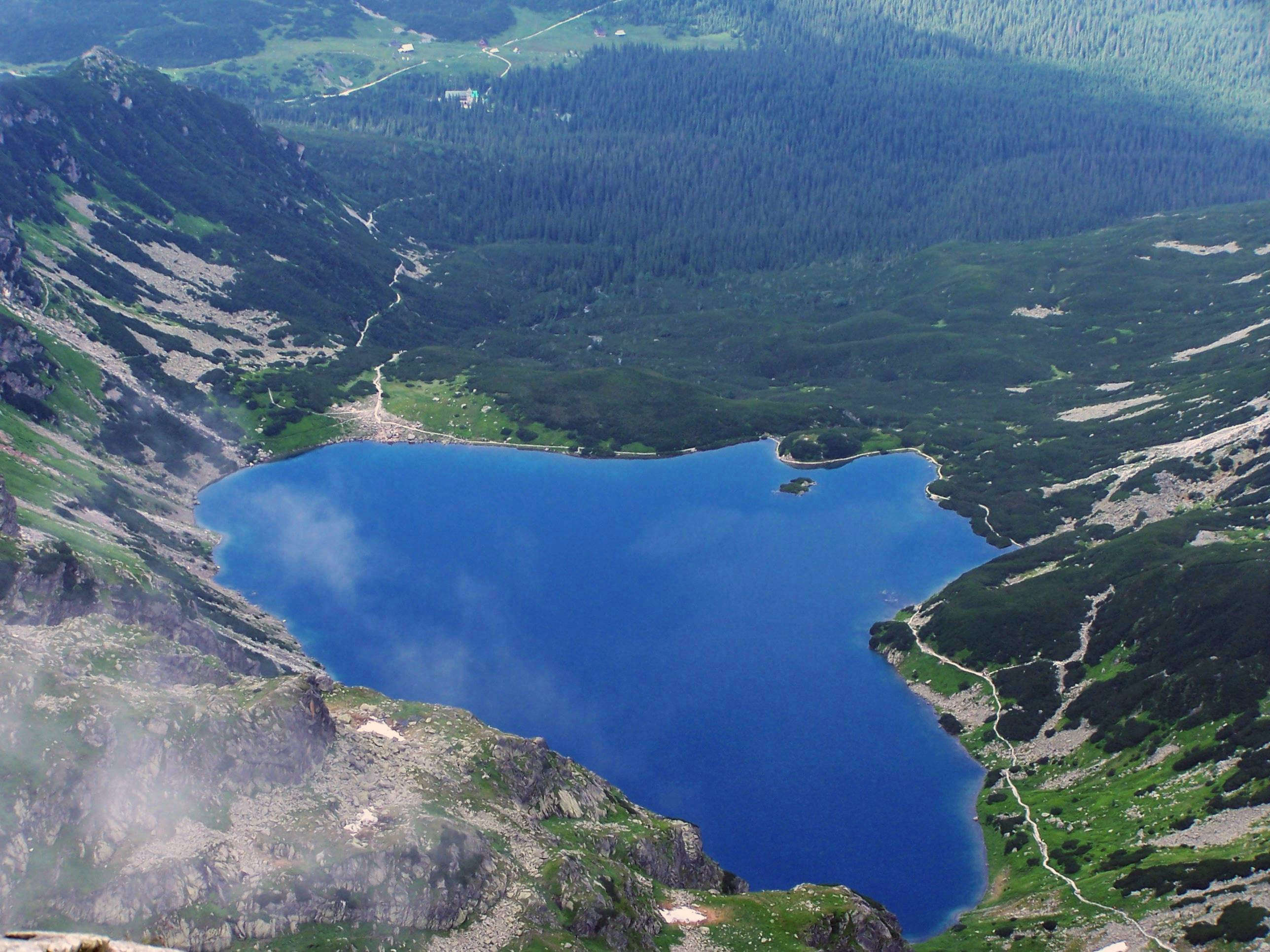 Czarny Staw Gąsienicowy(High Tatra Mountains)